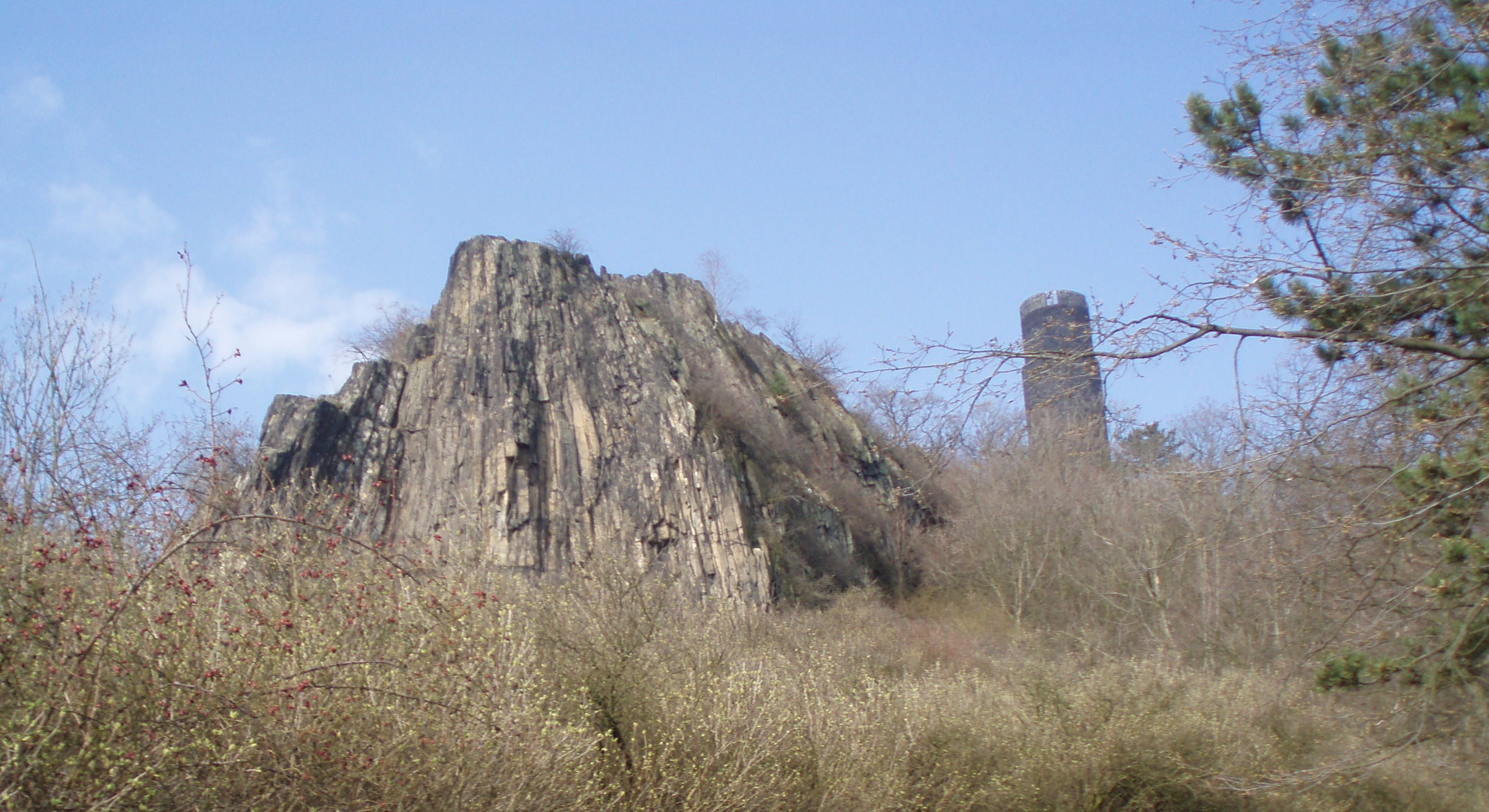 Natural monument Vrch Hazmburk near Klapý and Slatina pod Hazmburkem village in Litoměřice District, Czech Republic. View from the road